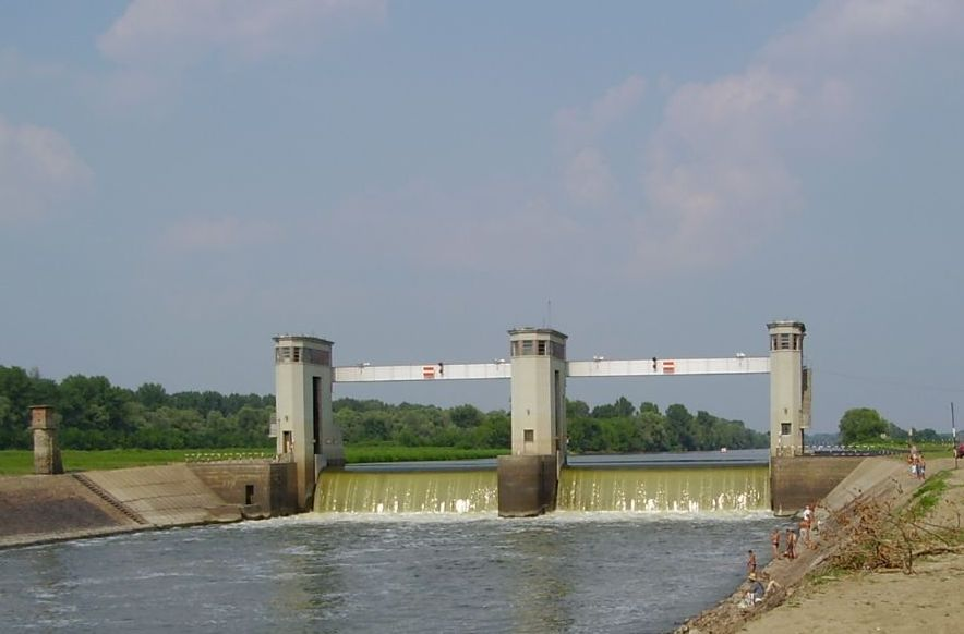 Békésszentandrás Dam on the Körös River, near Békésszentandrás, in Hungary